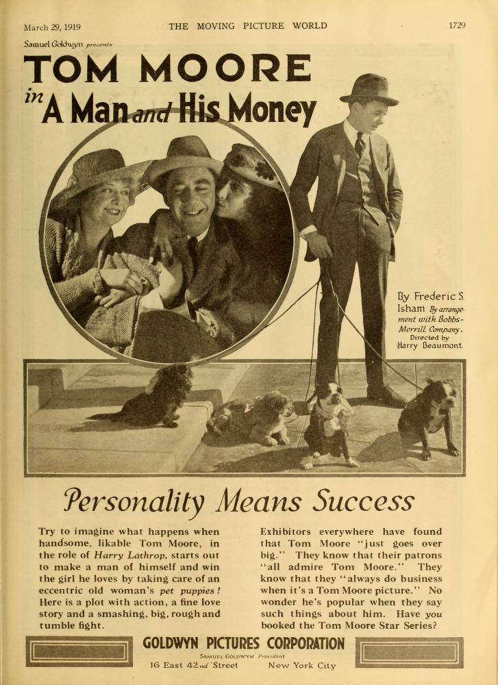 Advertisement in Moving Picture World, March 1919 for the film A Man and His Money (1919).